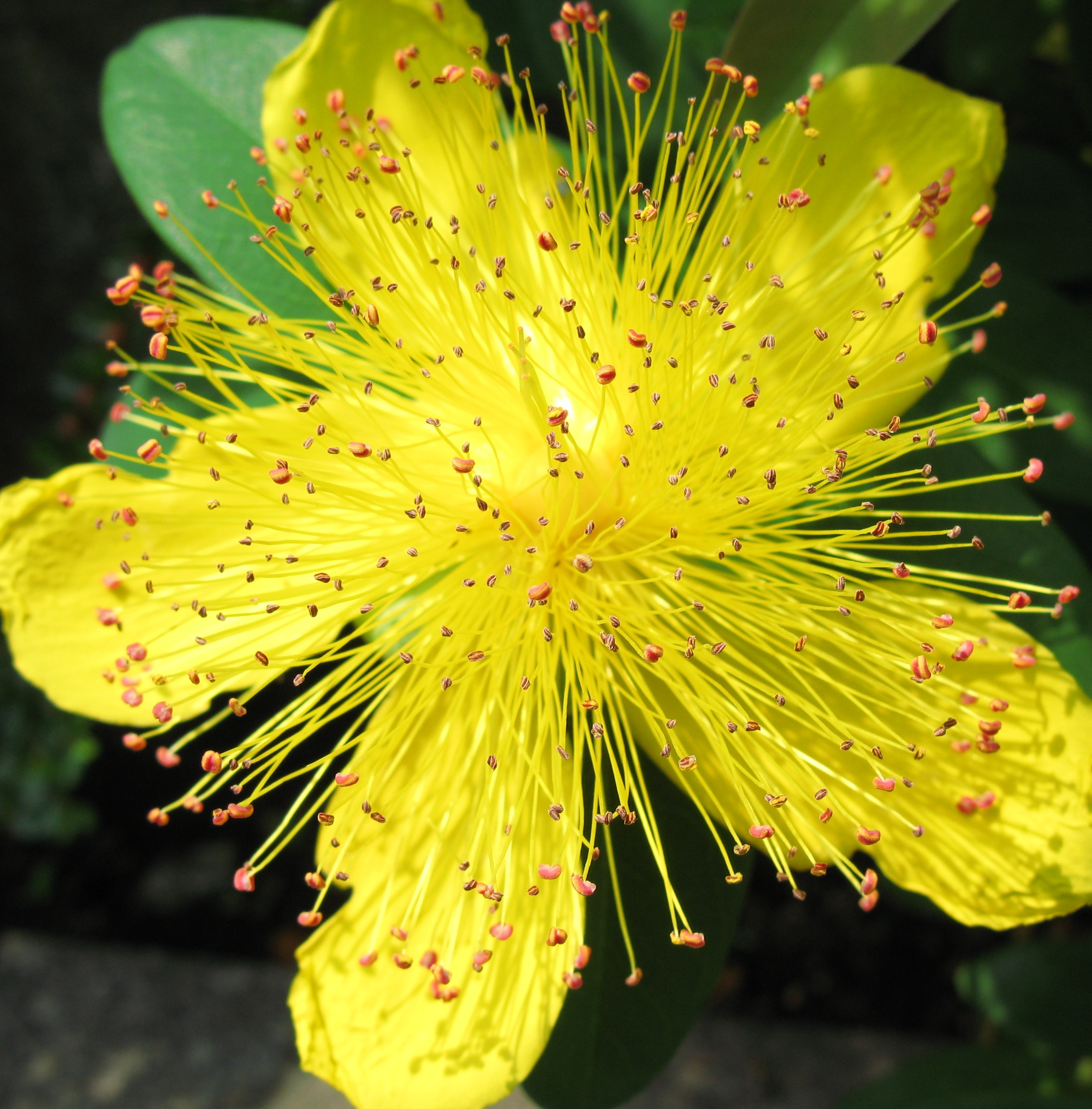 Hypericum japonicum (synonym Hypericum chinense), Kashiwa, Chiba Prefecture, Japan